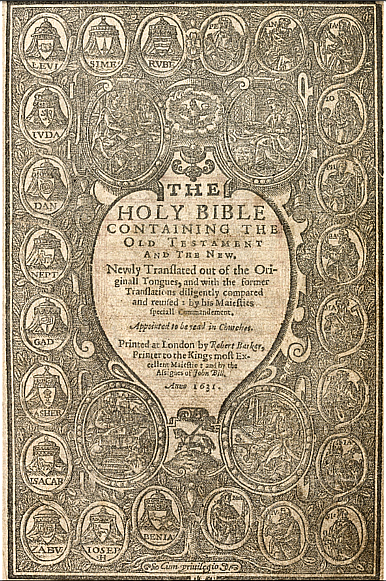 Title page of Barker and Lucas's 1631 Holy Bible, known as the "Wicked Bible".